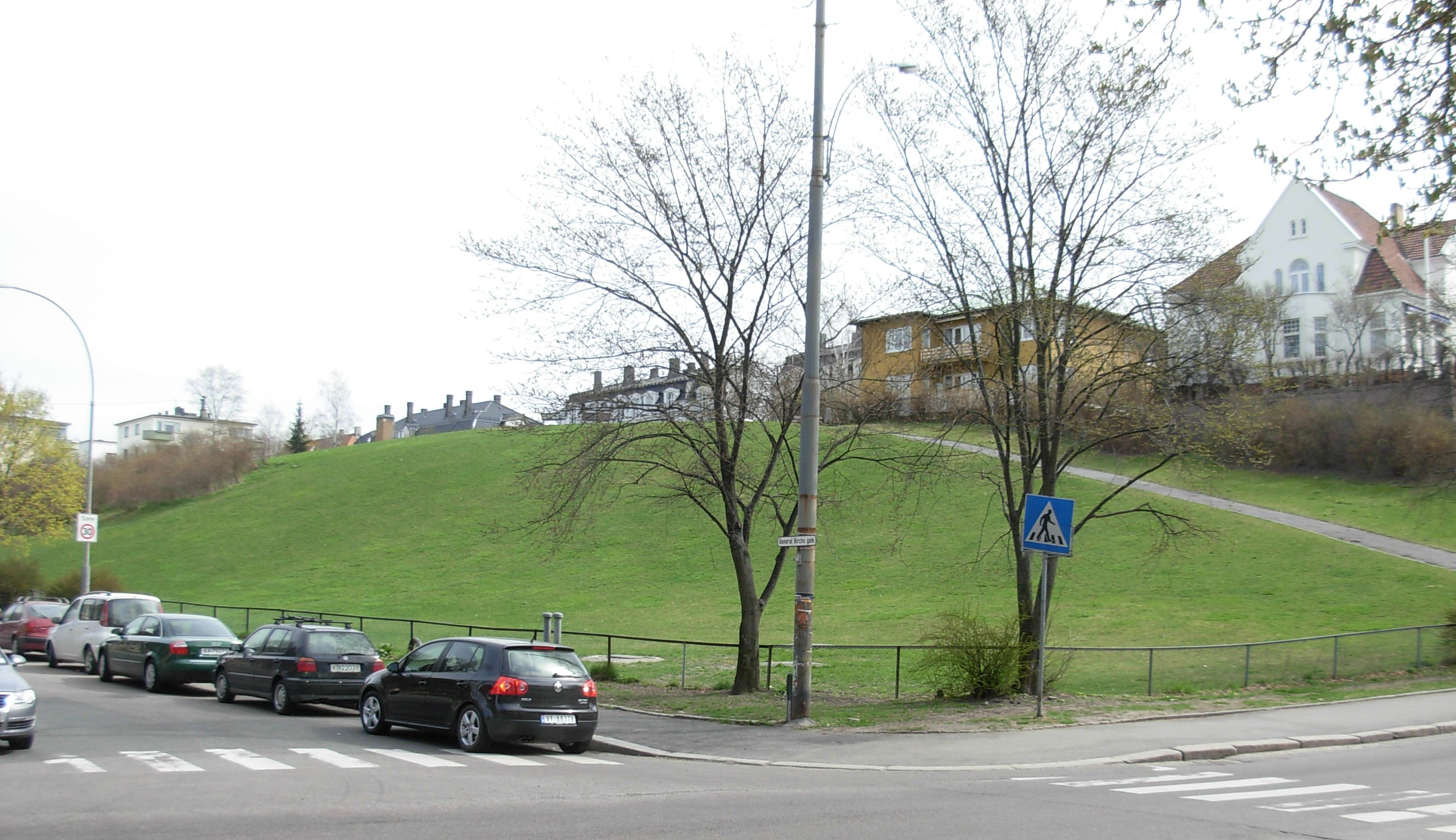 The park Idioten, Valleløkken, Oslo, seen from Ullevålsveien